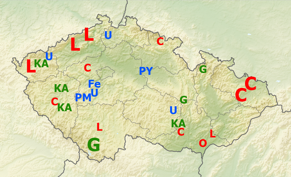 Natural resources of the Czech Republic. Metals are in blue: Fe — iron ore, PY — pyrite, PM — polymetals (Cu, Zn, Pb, etc.), U — uranium. Fossil fuels are in red: C — coal, L — lignite, O — oil. Non-metallic minerals are in green: G — graphite, KA — kaolinite. Data is from the map of Czechoslovakia (Moscow: GUGK SSSR, 1983).